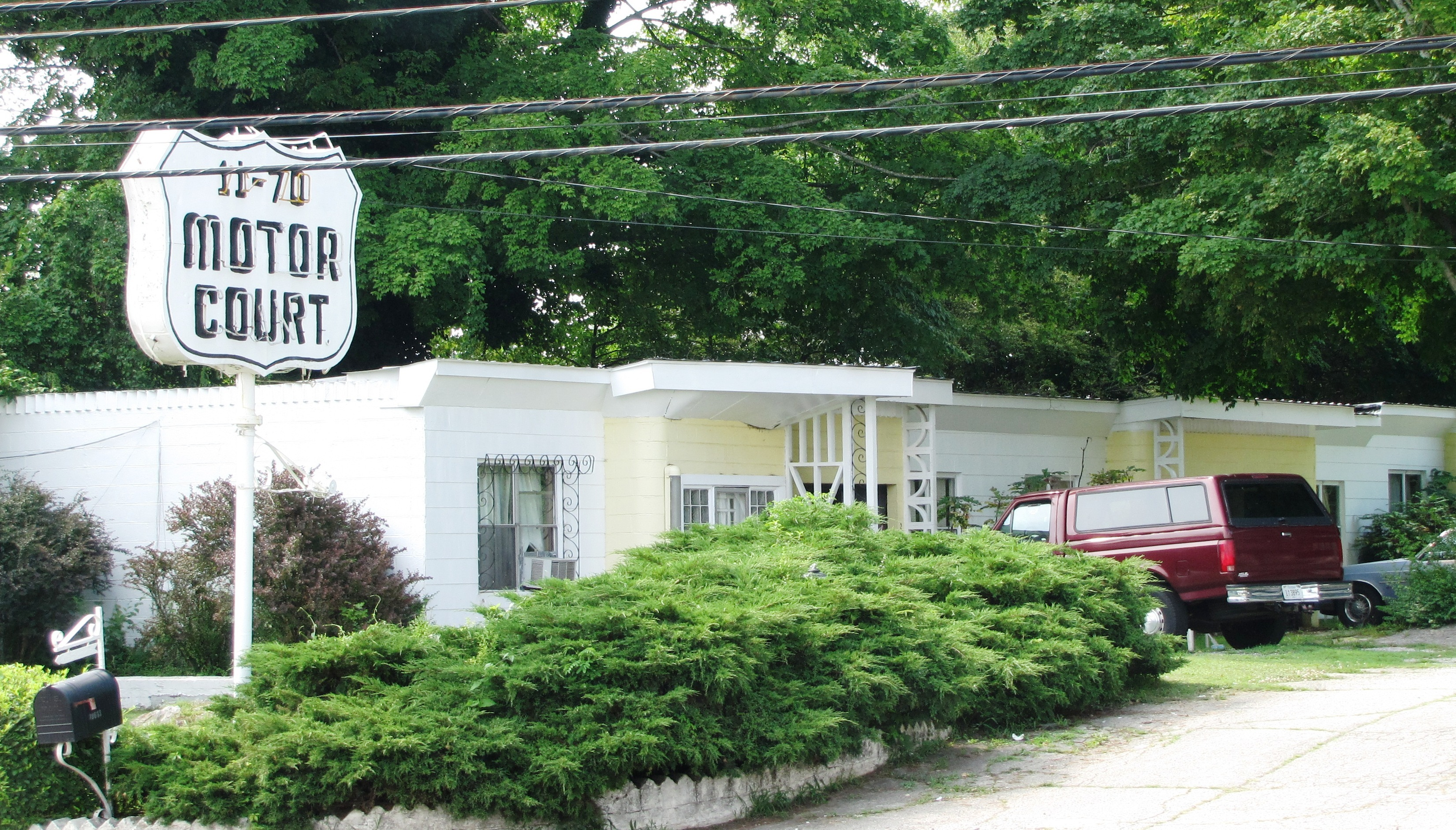 The 11-70 Motor Court on Kingston Pike in Knoxville, Tennessee, USA. This motor court is one of the few remaining establishments from Kingston Pike's "Dixie Lee Highway" period (c. 1925-1960), when the road was a major stopover for tourists driving across the country.